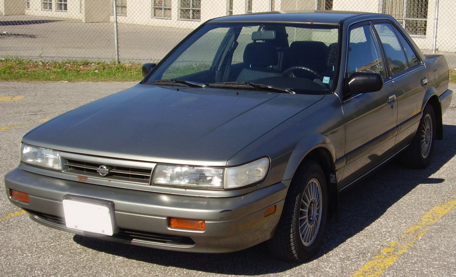 This is a photograph of my own fourth generation 'U12' Stanza. It had been recently sold.